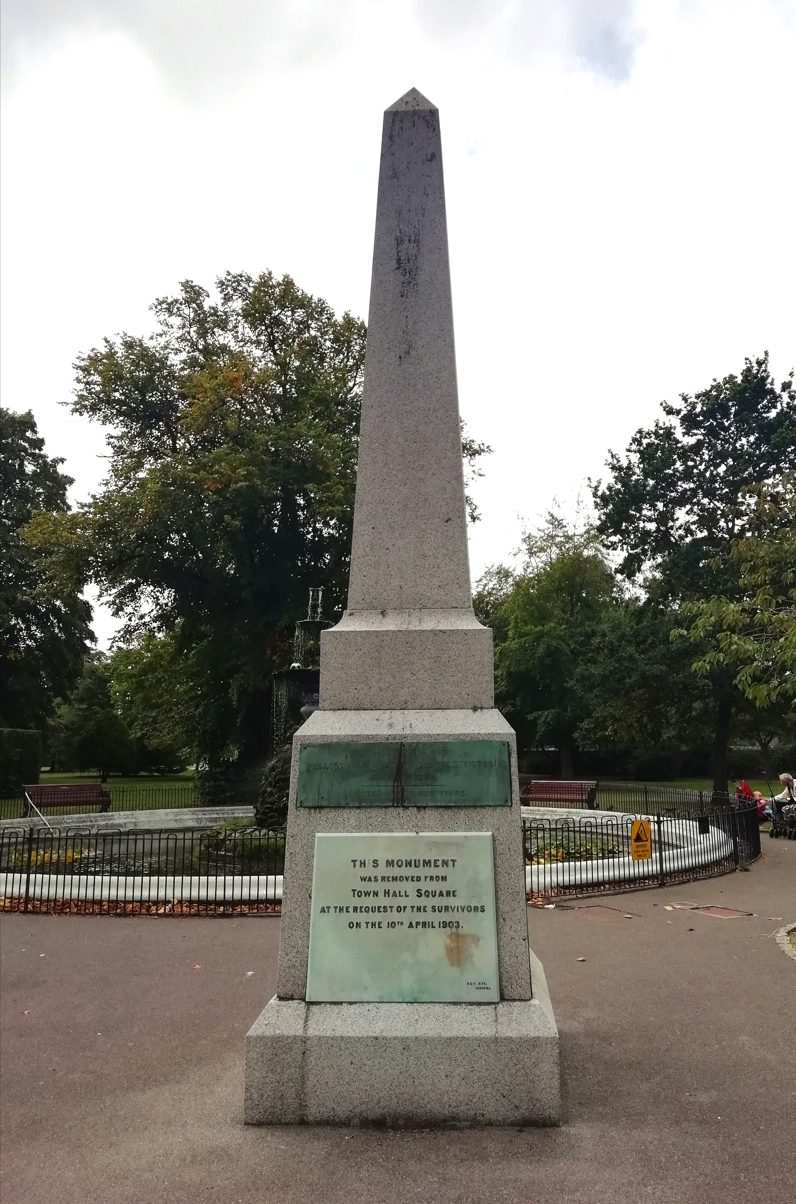 Hms Victoria Monument Wikidata has entry Q26666912 with data related to this item.